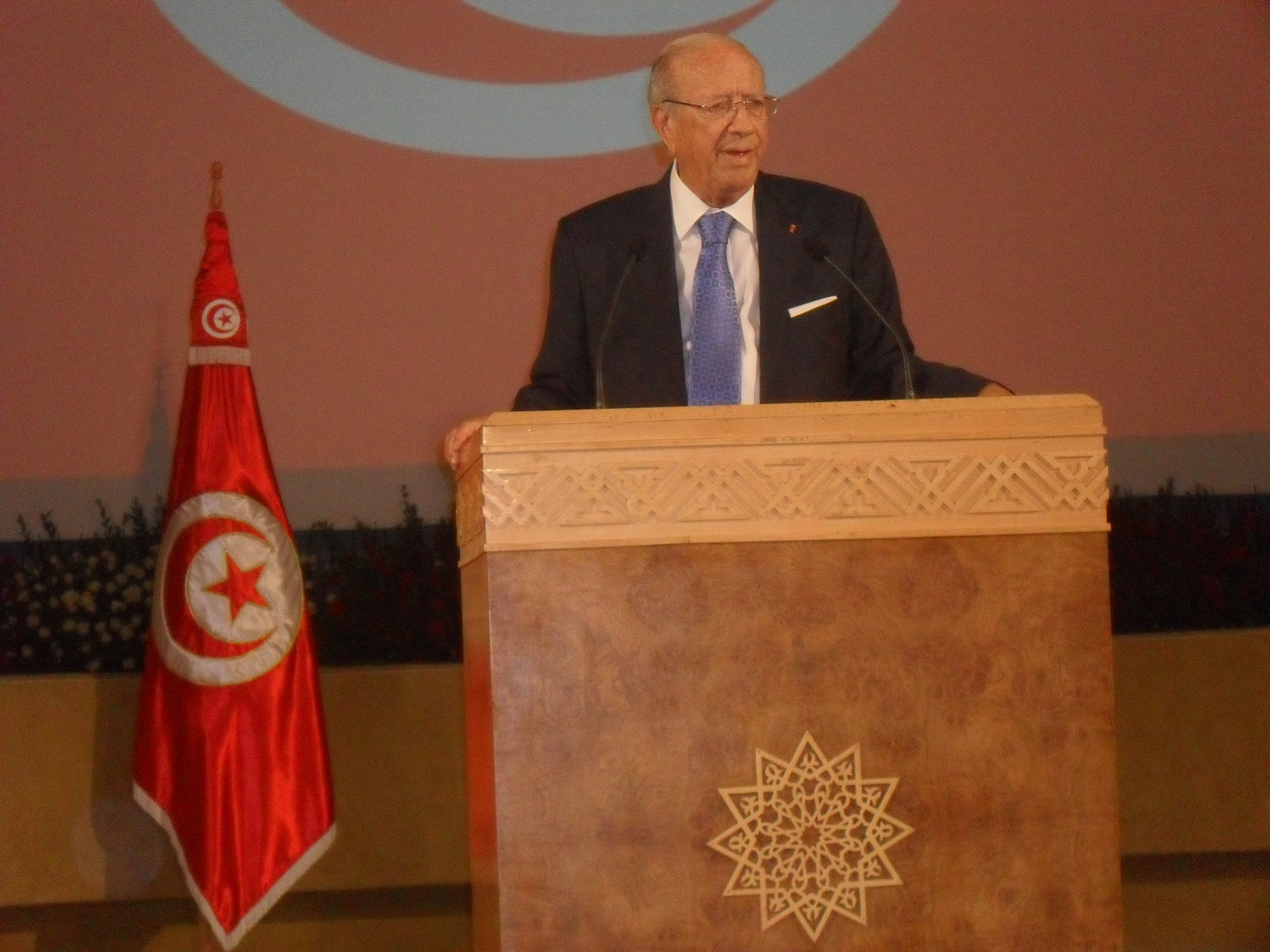 Tunisian Prime Minister Beji Caid Essebsi delivering a televised address